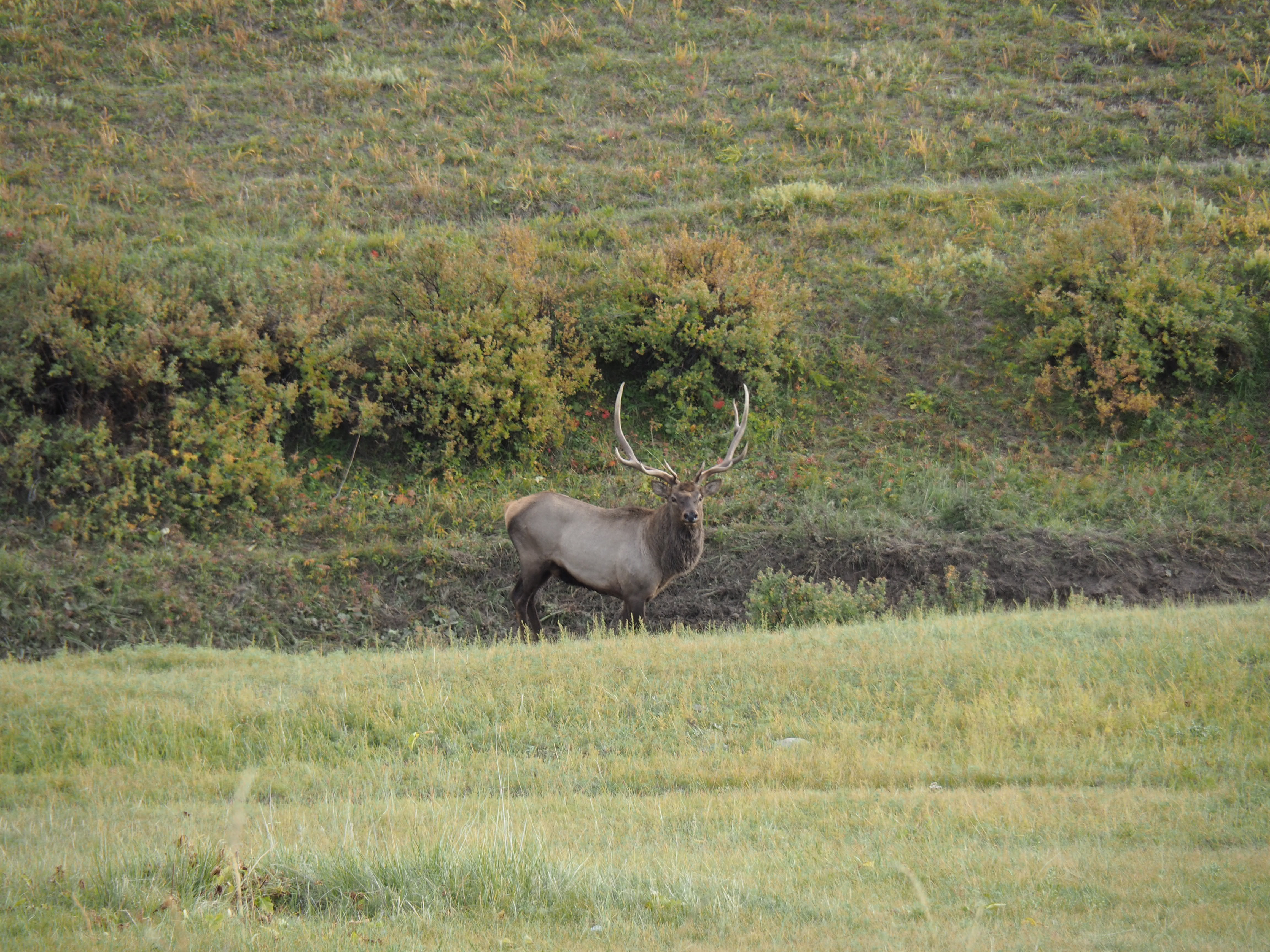 Hustai National Park